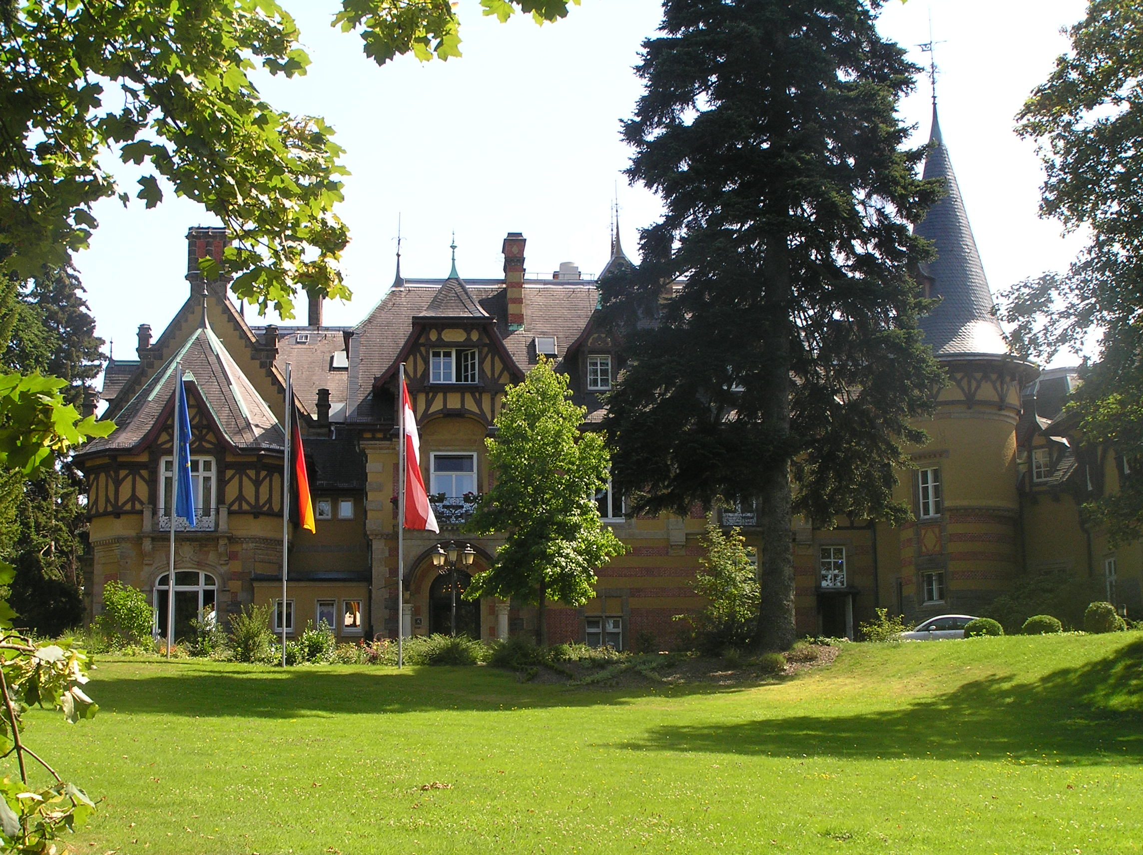 Villa Rothschild, summer house of Wilhelm Carl von Rothschild, today used as hotel, in Königstein, front side